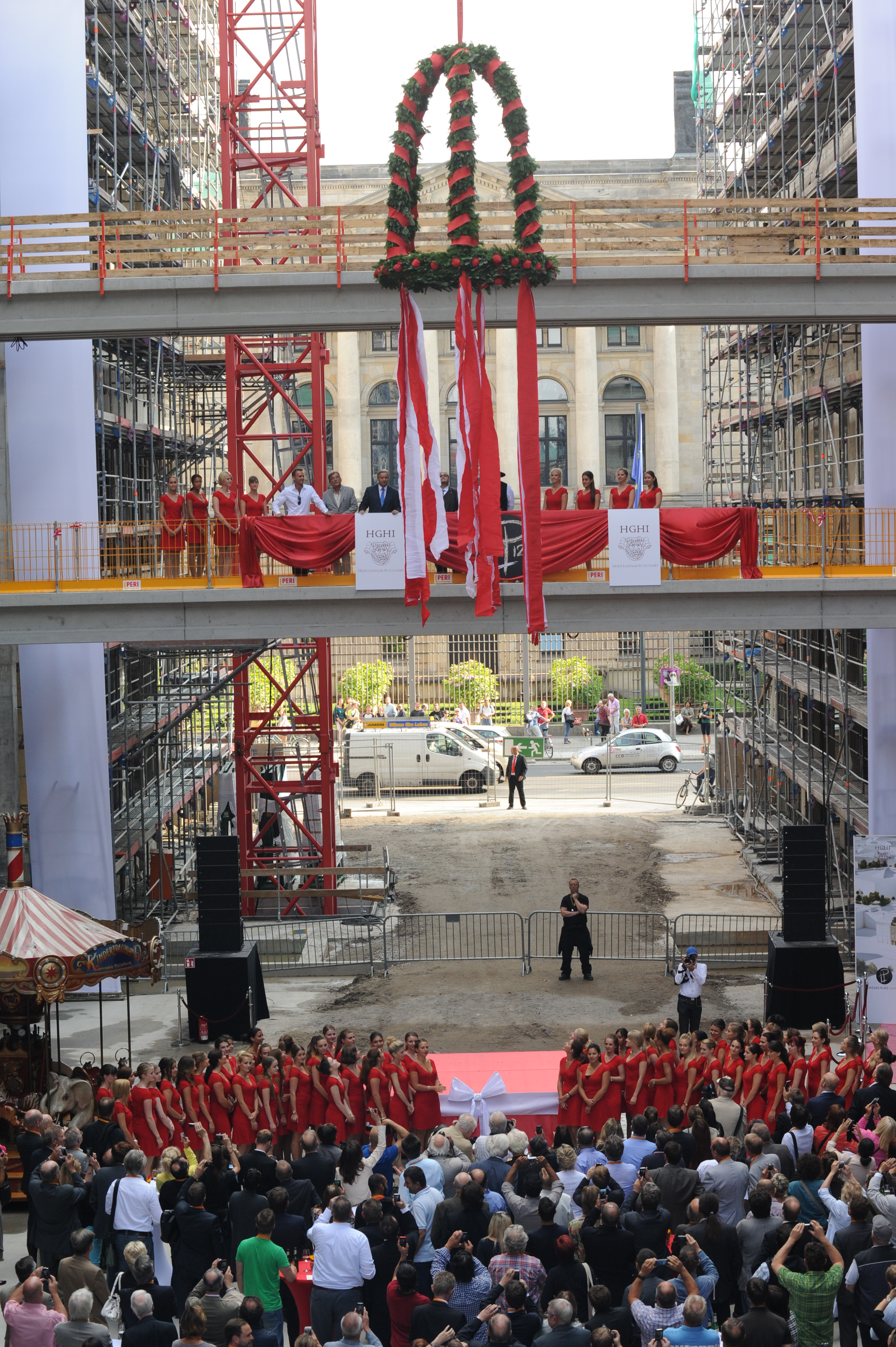 8/15/2013 the Topping out of LP12 Mall of Berlin